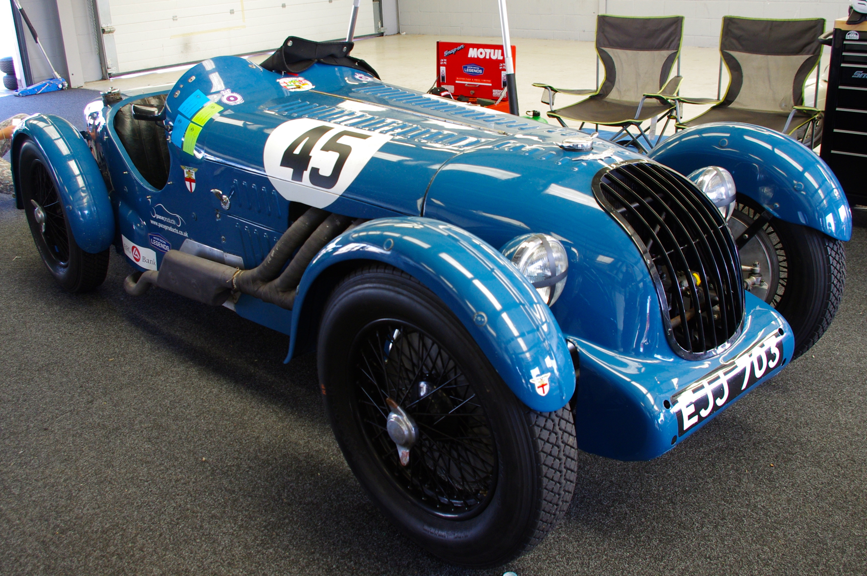 This is one of only six built by Alta pre-war. It was the pre-war Le Mans lap record holder (5mins 49 sec). Silverstone Classic 2012